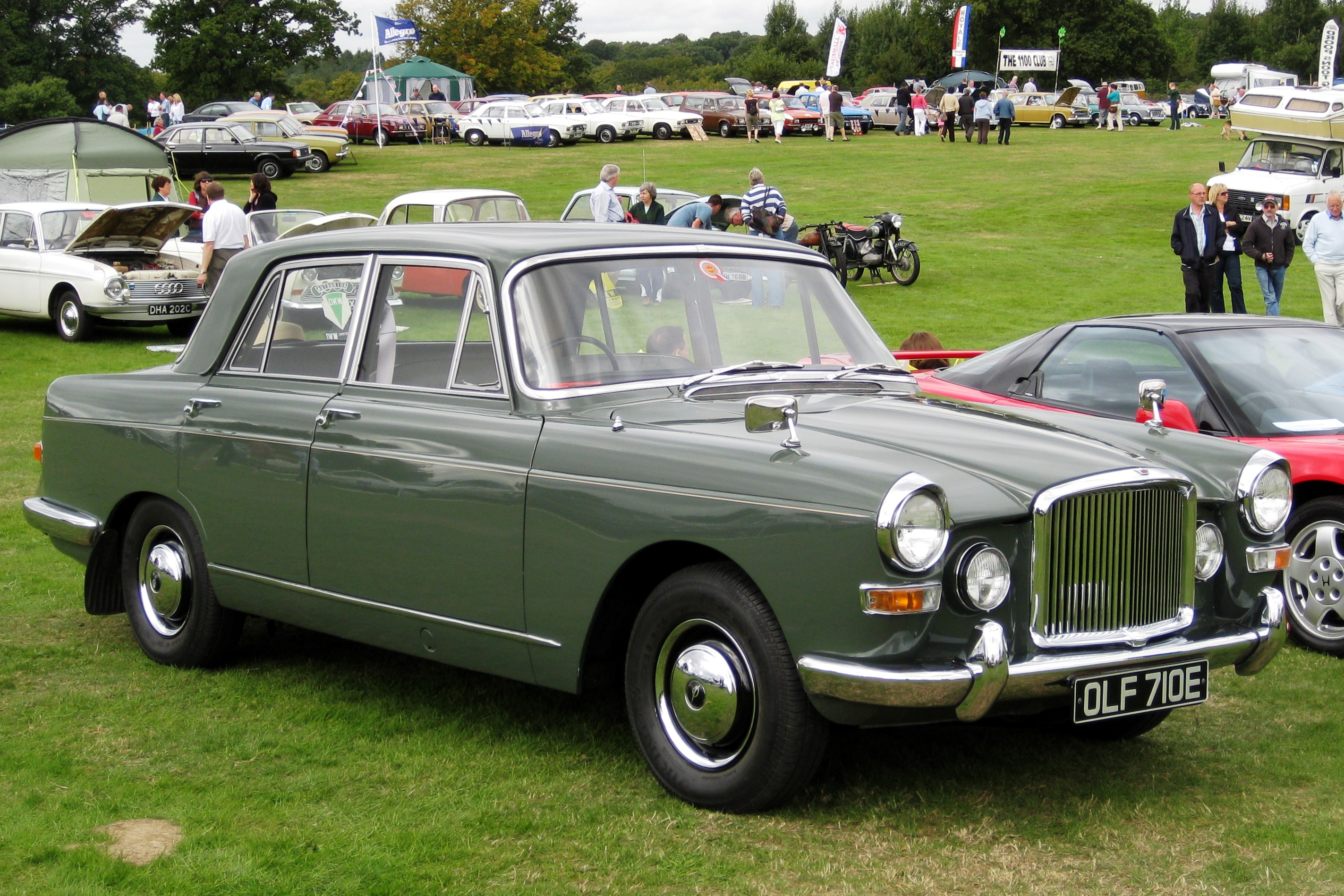 Vanden Plas Princess R